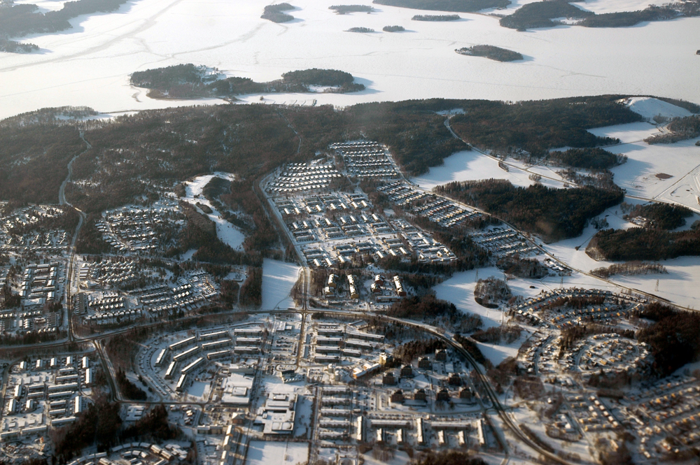 A north-western suburb of Stockholm called Viksjö. Photograph by Henryk Kotowski in February 2007.